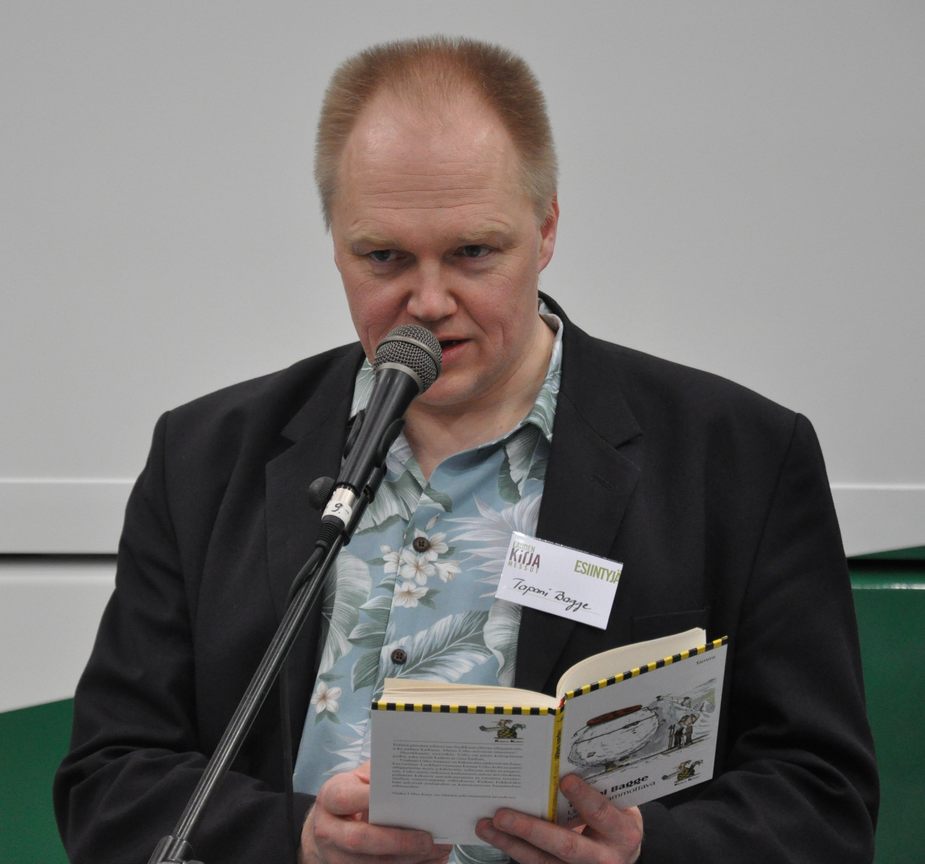 Finnish writer Tapani Bagge at the Lahti Book Fair 2009.